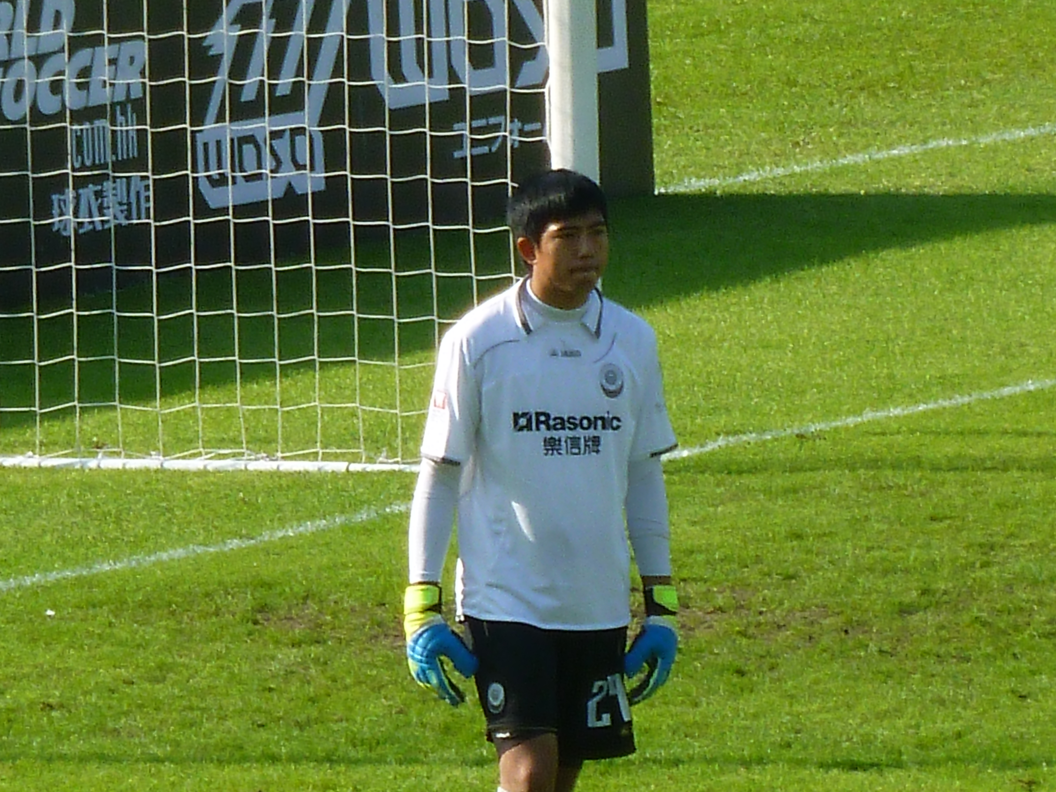 Tse Tak Him (28 Jan 2012 Hong Kong First Division League, Citizen vs Sham Shui Po, Mong Kok Stadium)